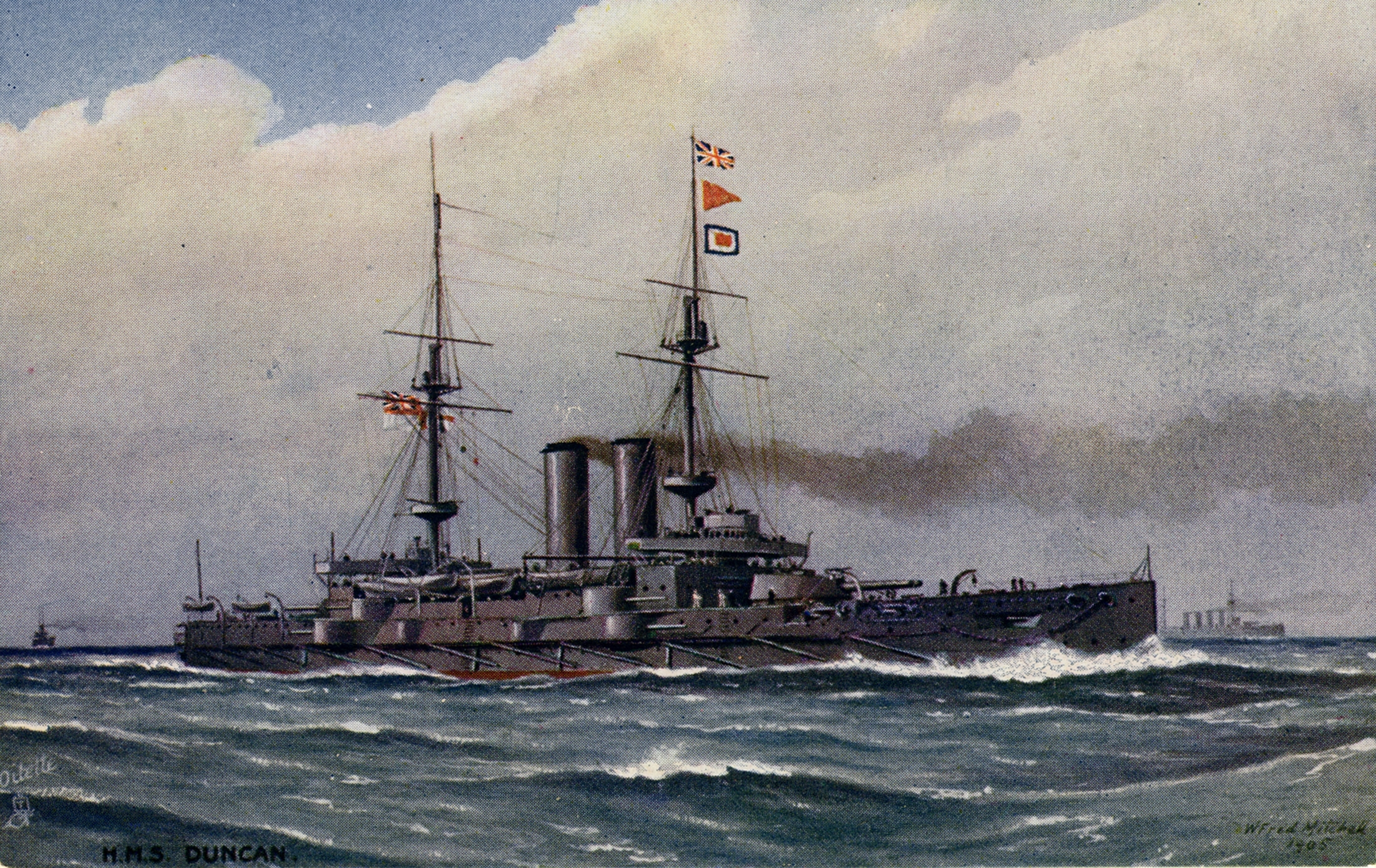 HMS Duncan Post card, Raphael Tuck & Sons. "Oilette" postcard no 9183, Our Navy series IV